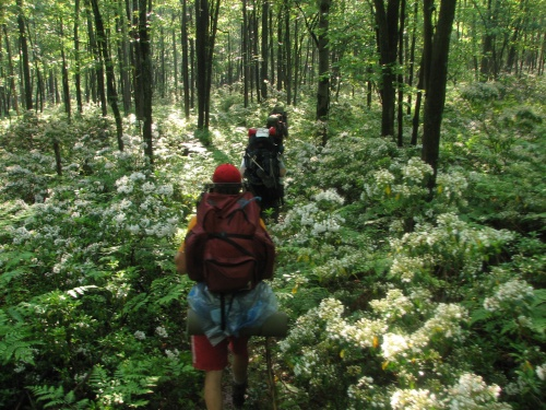 Hikers on the Quehanna Trail in Quehanna Wild Area, in Cameron, Clearfield, and Elk counties, Pennsylvania, USA